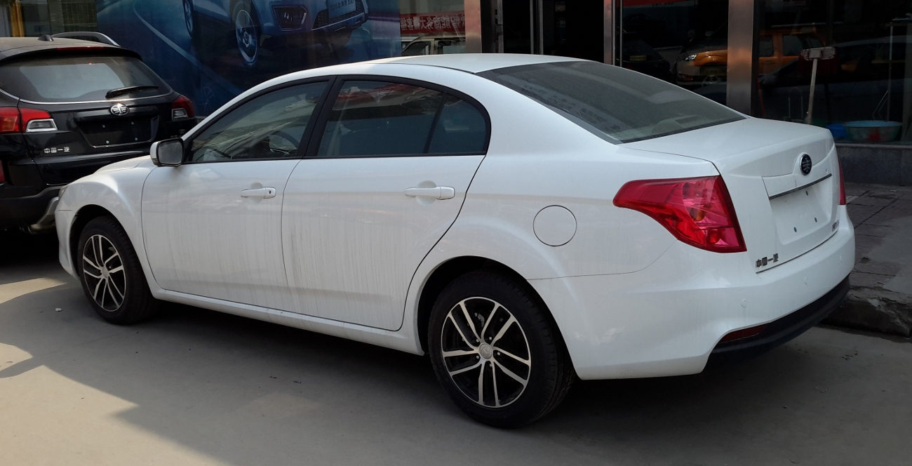 Besturn B50 facelift photographed in Xi'an, Shaanxi province, China.